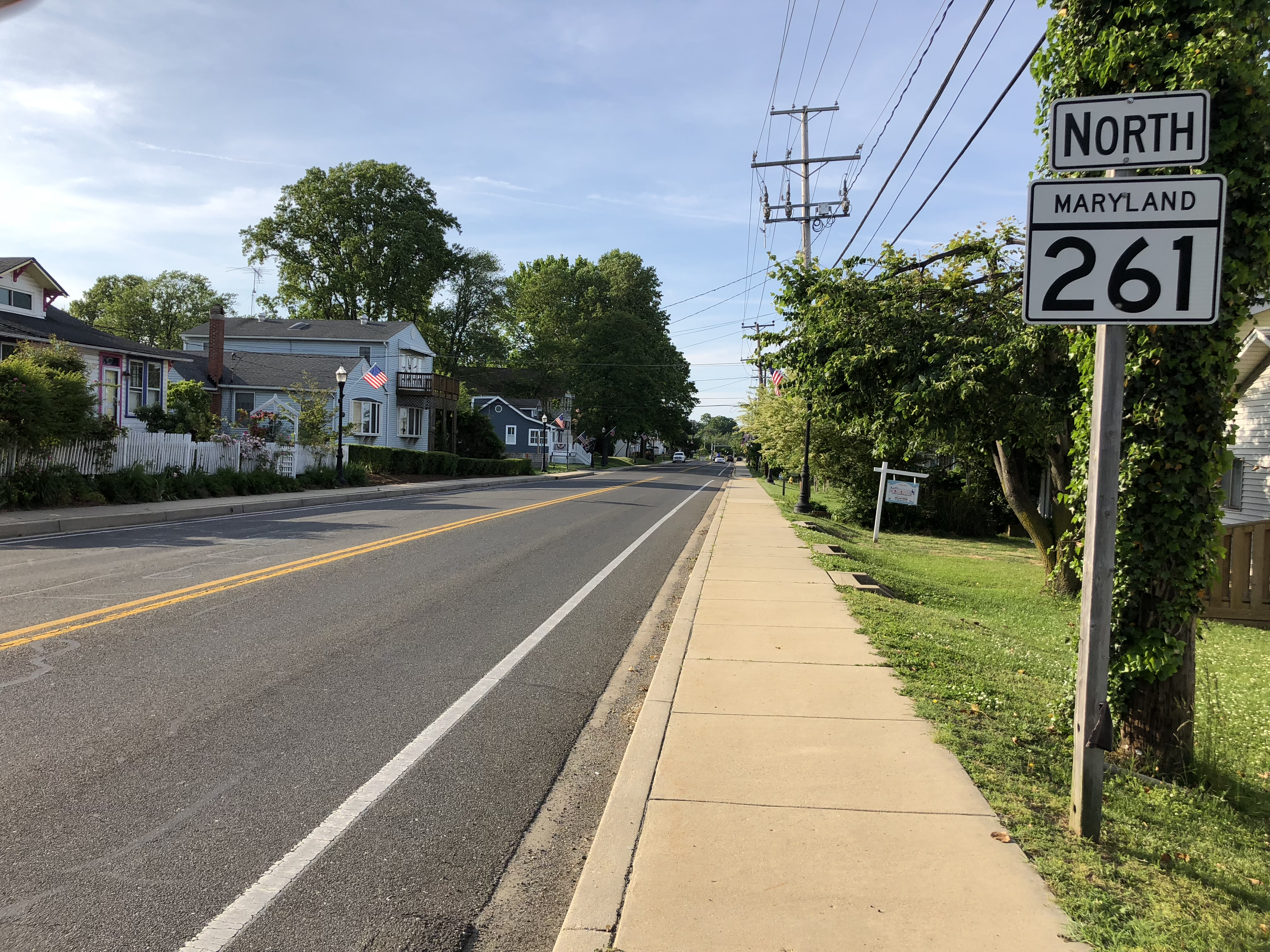 View north along Maryland State Route 261 (Bayside Road) at Maryland State Route 260 (Chesapeake Beach Road) in Chesapeake Beach, Calvert County, Maryland